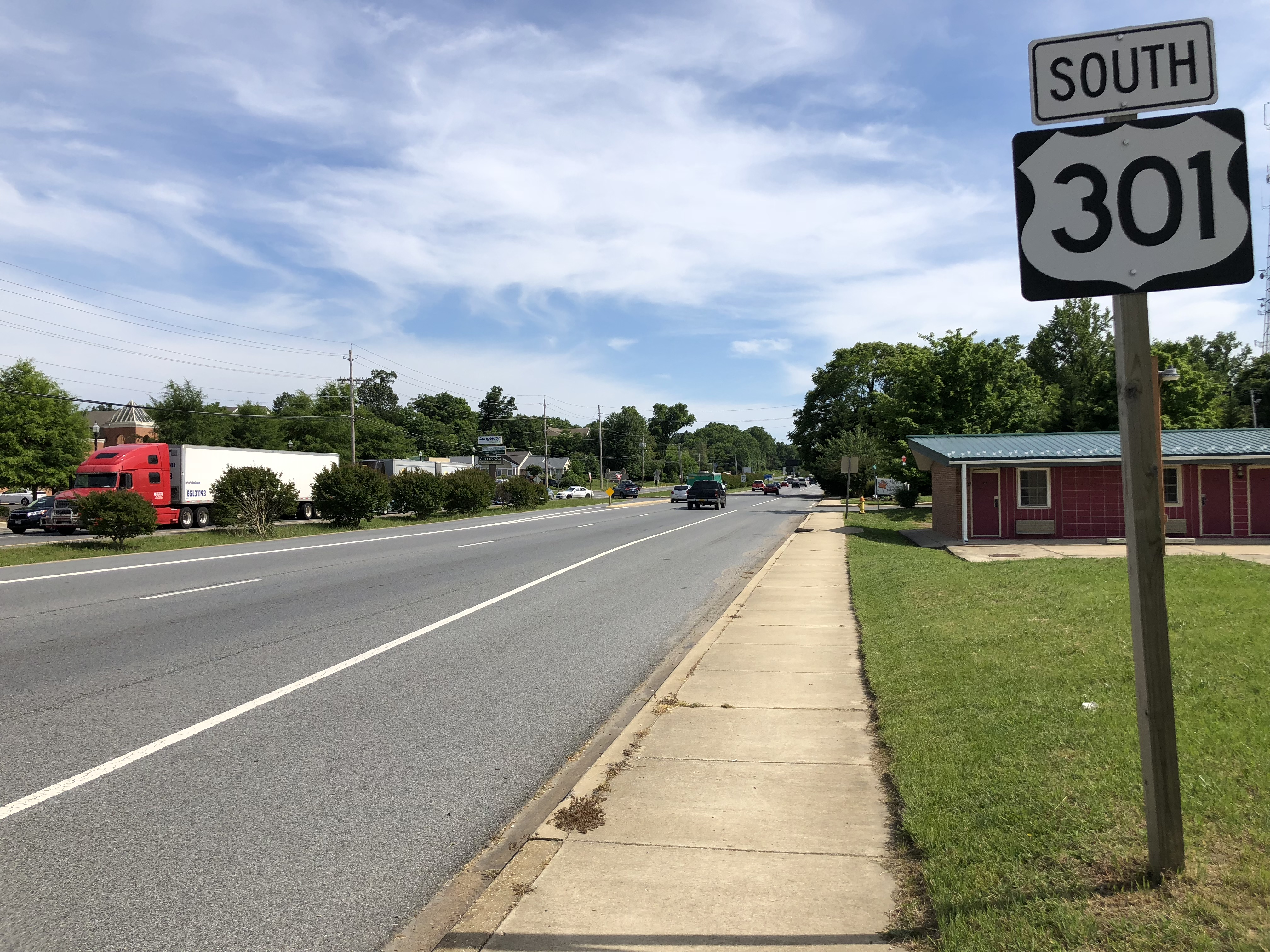 View south along U.S. Route 301 (Crain Highway) just south of Maryland State Route 6 (Port Tobacco Road/Charles Street) in La Plata, Charles County, Maryland